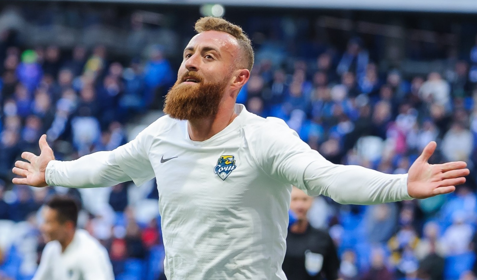 Aleksandre Karapetian celebrating a goal for PFC Sochi against FC Dynamo Moscow.